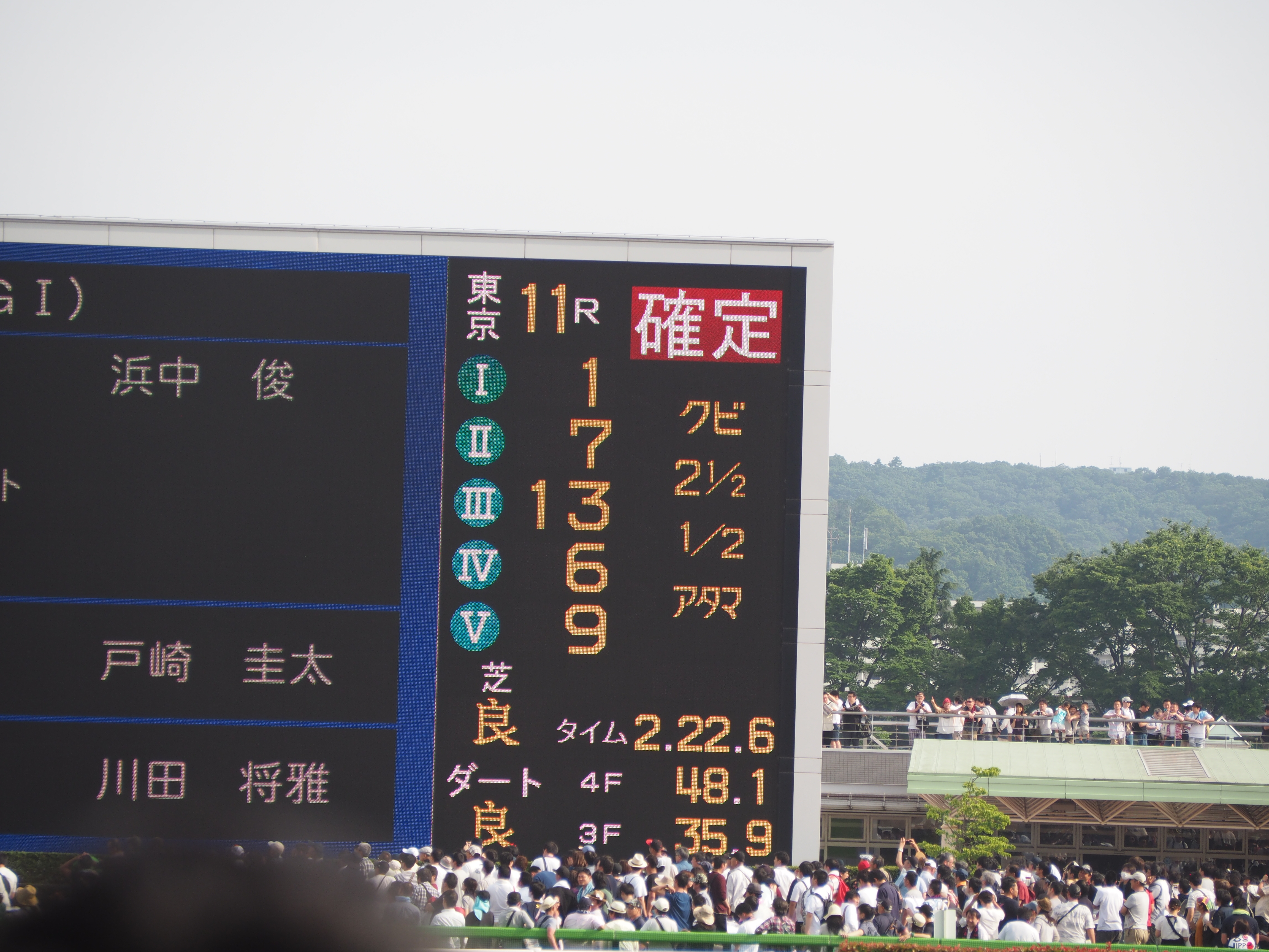 Derby winner roger barows and suguru hamanaka / 86th Tokyo Yushun Japanese Derby 2019 日本ダービー